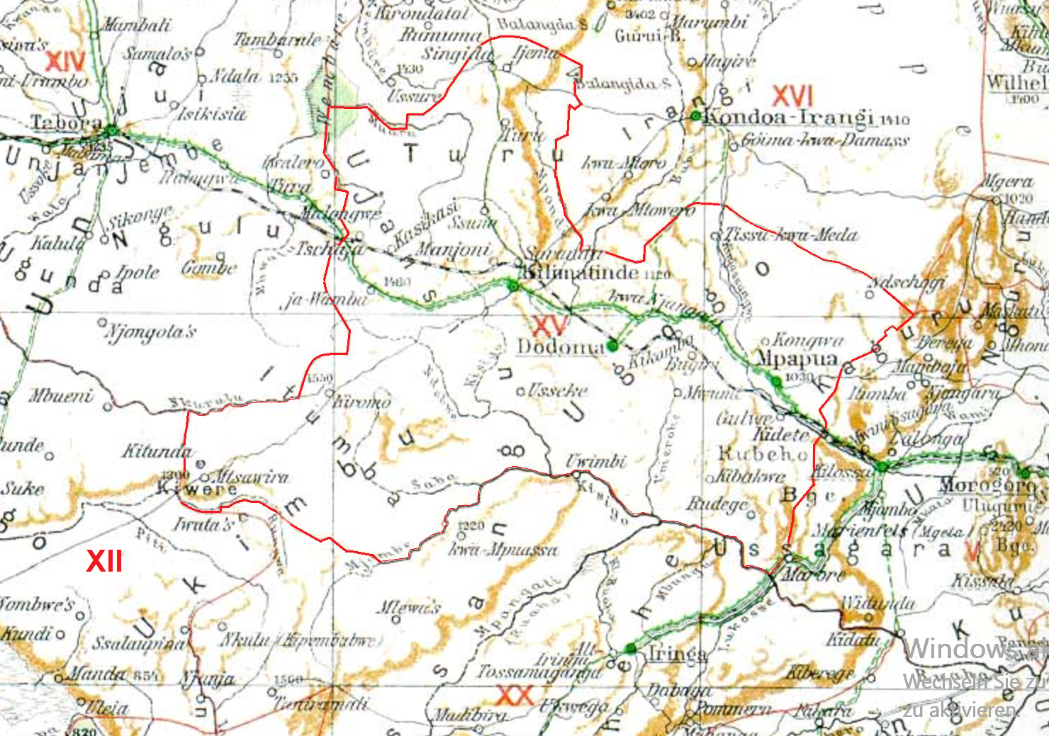 A map of the Bezirk Dodoma in German East Africa Kiswahili: Ramani ya Mkoa wa Dodoma (DOA) katika Afrika ya Mashariki ya Kijerumani (1912-1916)